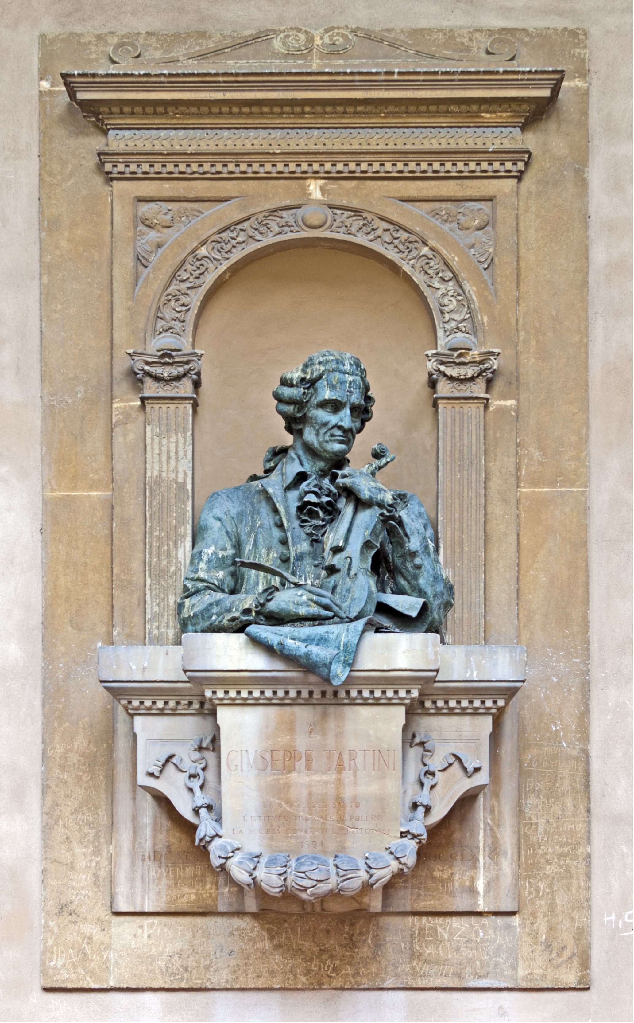 Basilica of Saint Anthony of Padua Italy. Cloister of the Blessed Luke. Monument to Giuseppe Tartini.